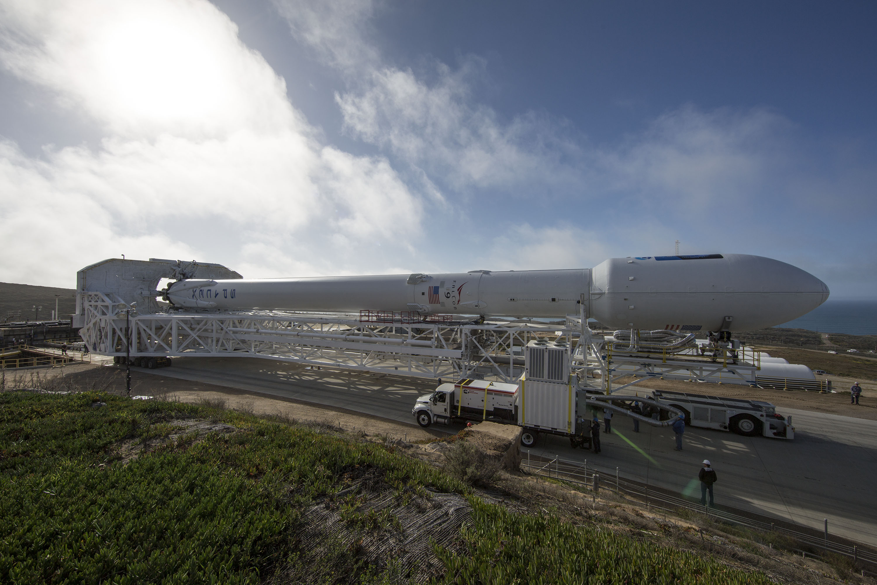 With this mission, SpaceX's Falcon 9 rocket will deliver the Jason-3 satellite to low-Earth orbit for the U.S. National Oceanic and Atmospheric Administration (NOAA), National Aeronautics and Space Administration (NASA), French space agency Centre National d'Etudes Spatiales (CNES) and the European Organisation for the Exploitation of Meteorological Satellites (EUMETSAT).